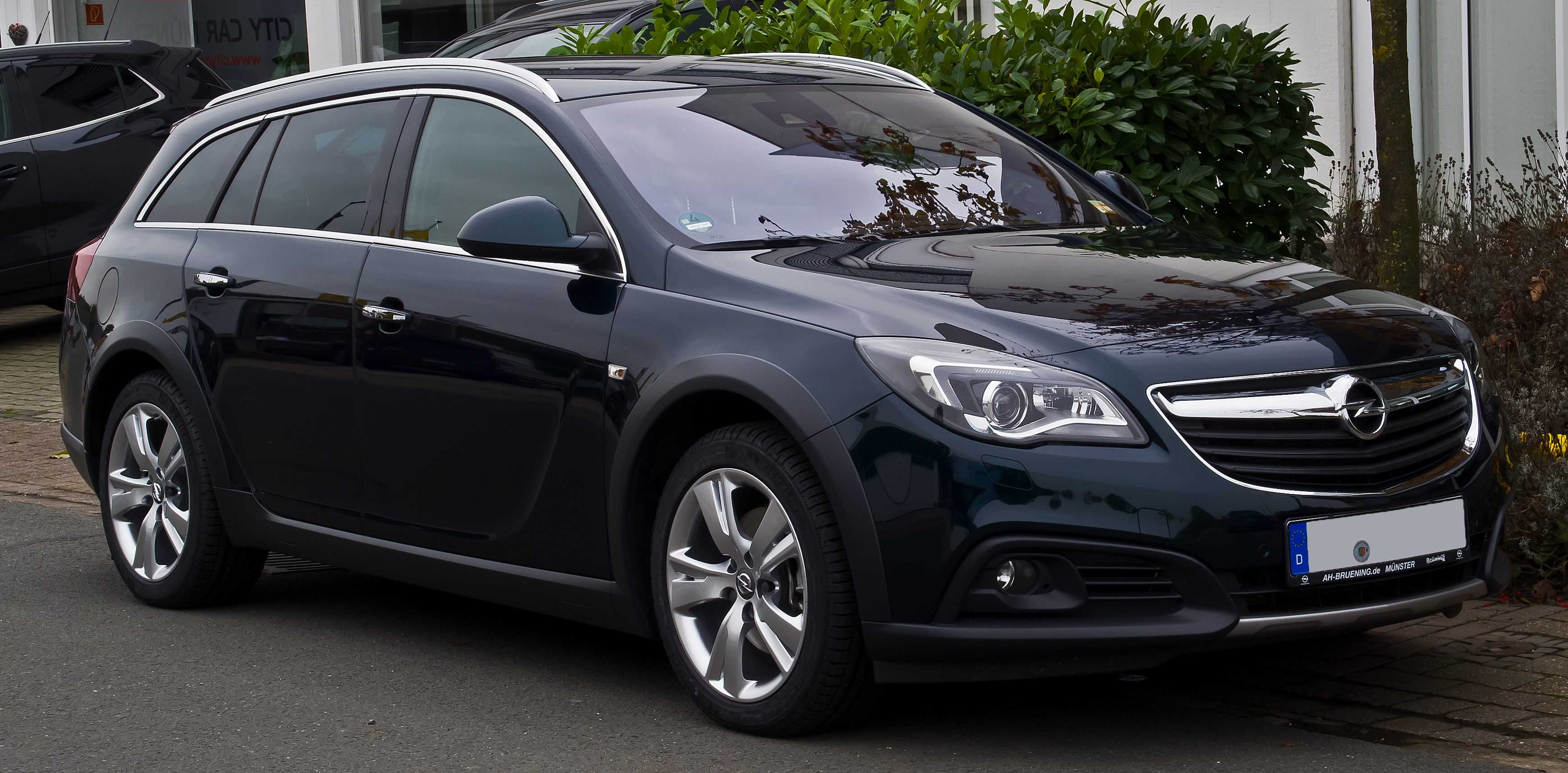 Opel Insignia Country Tourer 2.0 CDTI ecoFLEX 4x4 (Facelift)